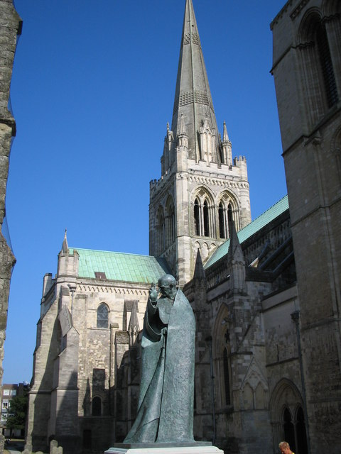 Chichester Cathedral and St Richard. The statue of St Richard is near the west door of the cathedral. During this summer particularly the cathedral has looked incredibly beautiful against a pure blue sky.